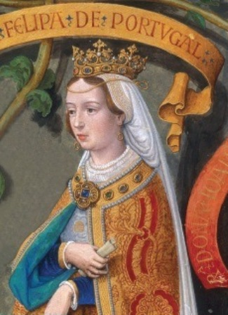 raingha